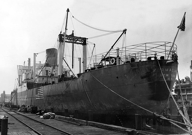 The former Moore McCormack Line freighter SS Mormaclark at the Brewer Ship Yard, Staten Island, New York (USA), on 6 June 1941, undergoing conversion to a U.S. Navy ship. She was commissioned as USS Betelgeuse (AK-28) on 14 June 1941. Note the neutrality markings on her side.